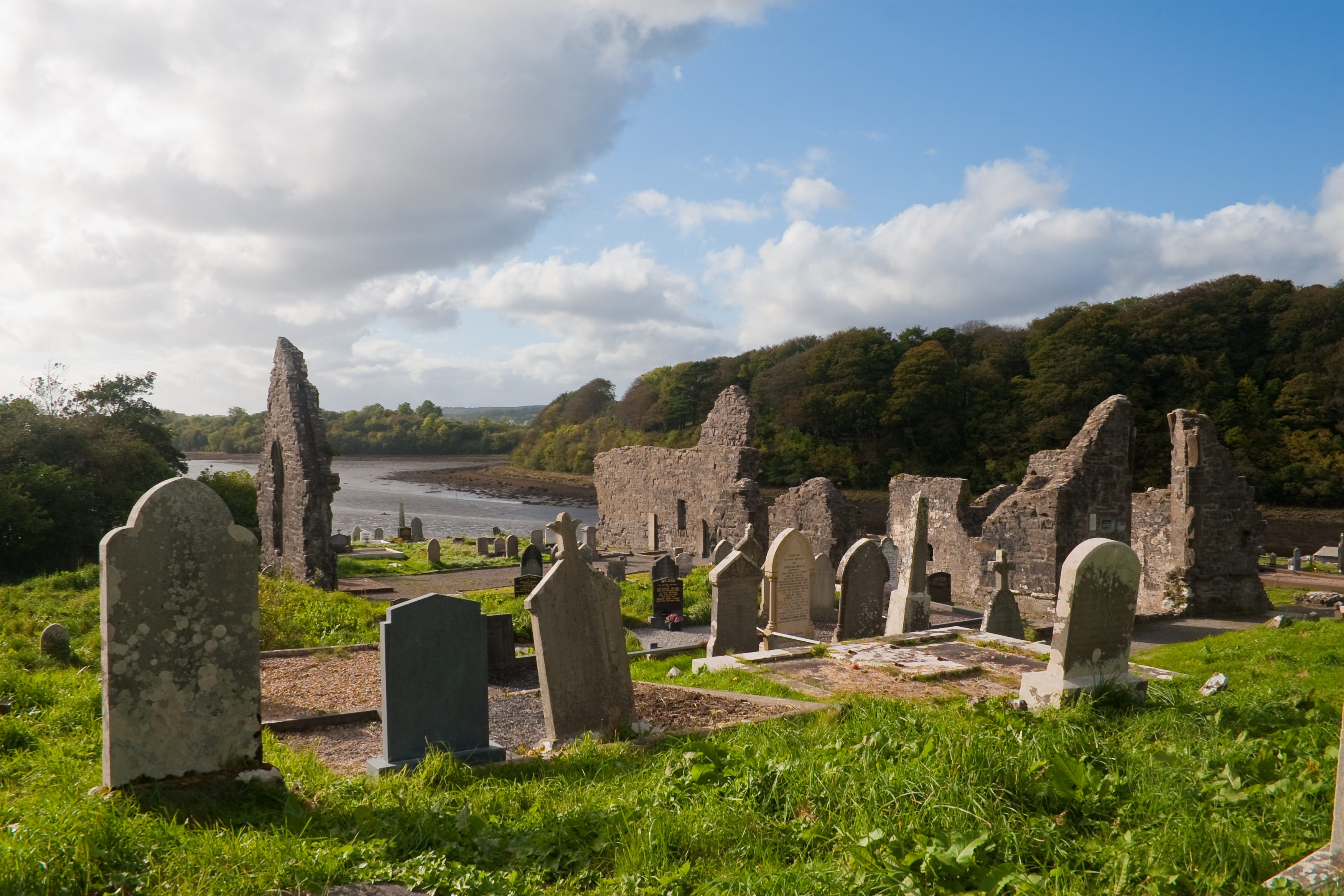 Donegal, County Donegal, Ireland South-east view of Donegal Friary with the Main Channel of Donegal Bay leading to Donegal harbour in the background. At the left the surviving south window of the south transept is to be seen, in the center the north wall of the nave, and at the right the walls of the choir including the ruins of the east window.